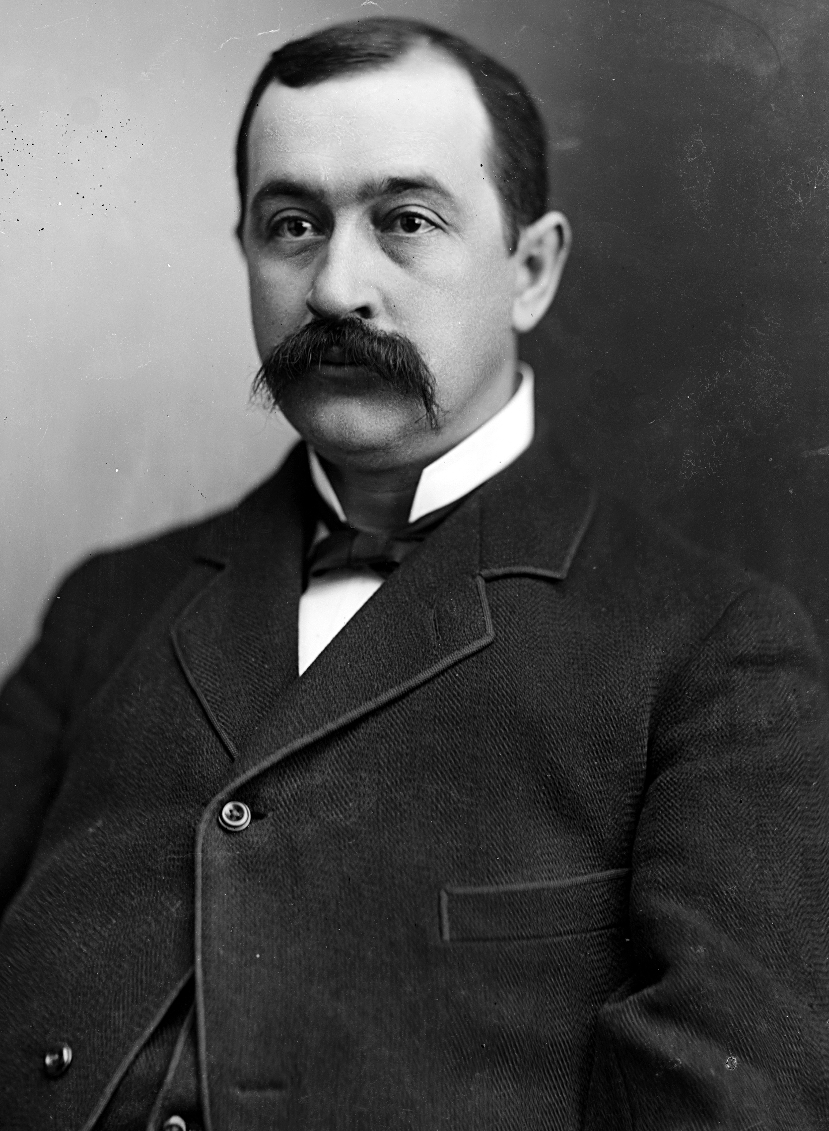 Daniel N. Lockwood, US Representative from New York